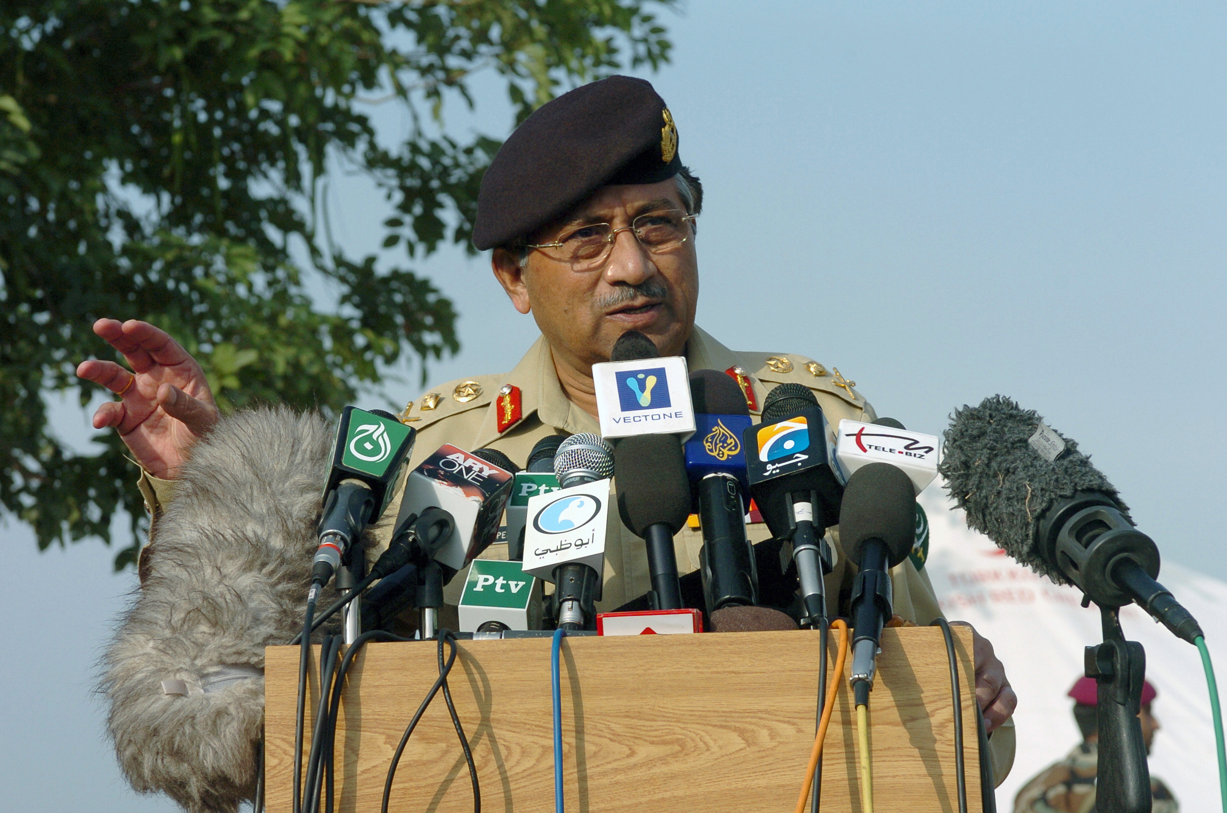 Public Domain. Suggested credit: DOD via pingnews. Additional source and credit info from source: Pakistani President General (GEN) Pervez Musharraf speaking during a press conference at the Pakistan Air Force base in Chaklala, Pakistan. The United States government is participating in a multinational humanitarian assistance and support effort lead by the Pakistani Government to bring aid to victims of the devastating earthquake that struck the region on October 8, 2005.